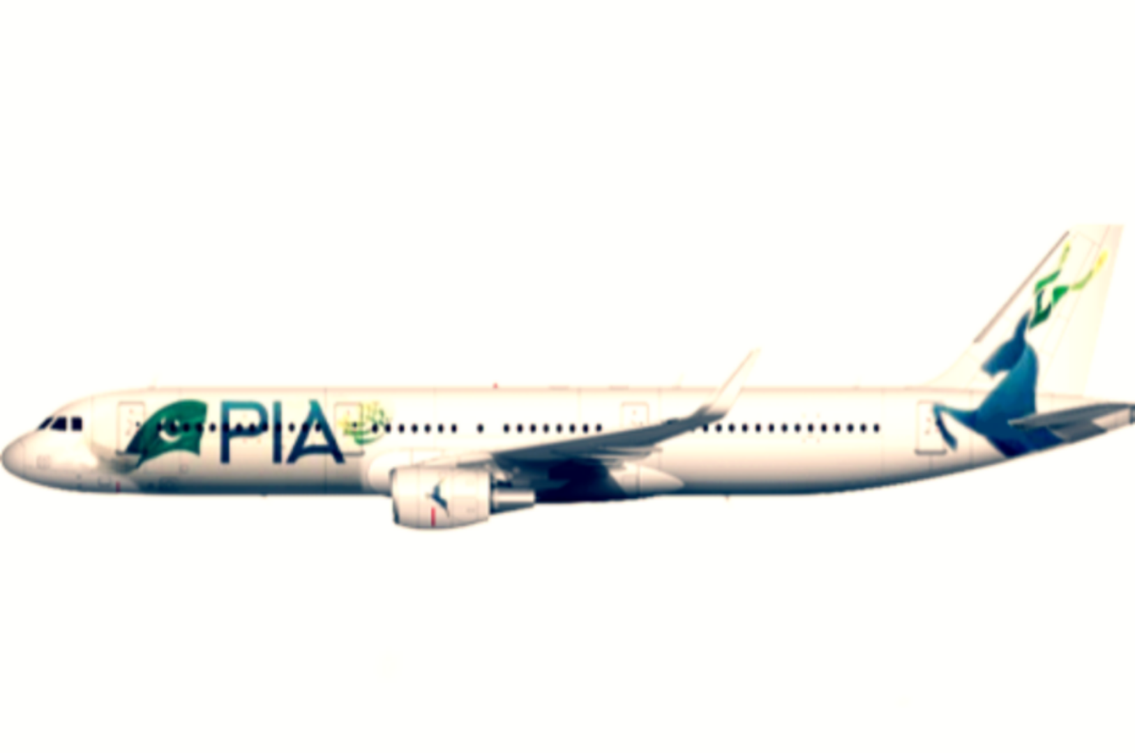 Photo by Ahabbscience Studio Pakistan. All Terms and conditions apply. On 2018, Pakistan's national animal Markhor was chosen to be introduced as the brand identity on aircraft tail, showing airline commitment for preserving the species. This tail was based on a jumping ibex having long screw horns, which relatively embedded into the new logo. Company slogan changed to "We Fly at the Right Attitude". PIA acronym is written in a Russian font named "Arkhip Bold" and company slogan in "Exo Semi-Bold" font. For the first time, legacy PIA colors (Pakstan green & mustard gold) dropped and blue texture added in "PIA" acronym. Urdu PIA logo color also changed with yellow-green texture. This rebranding attempt failed due to the highly negative reaction by the public as the national flag on the tail was replaced with an animal logo. Supreme Court of Pakistan taken sue motu action and bar PIA to use ibex logo as brand identity.